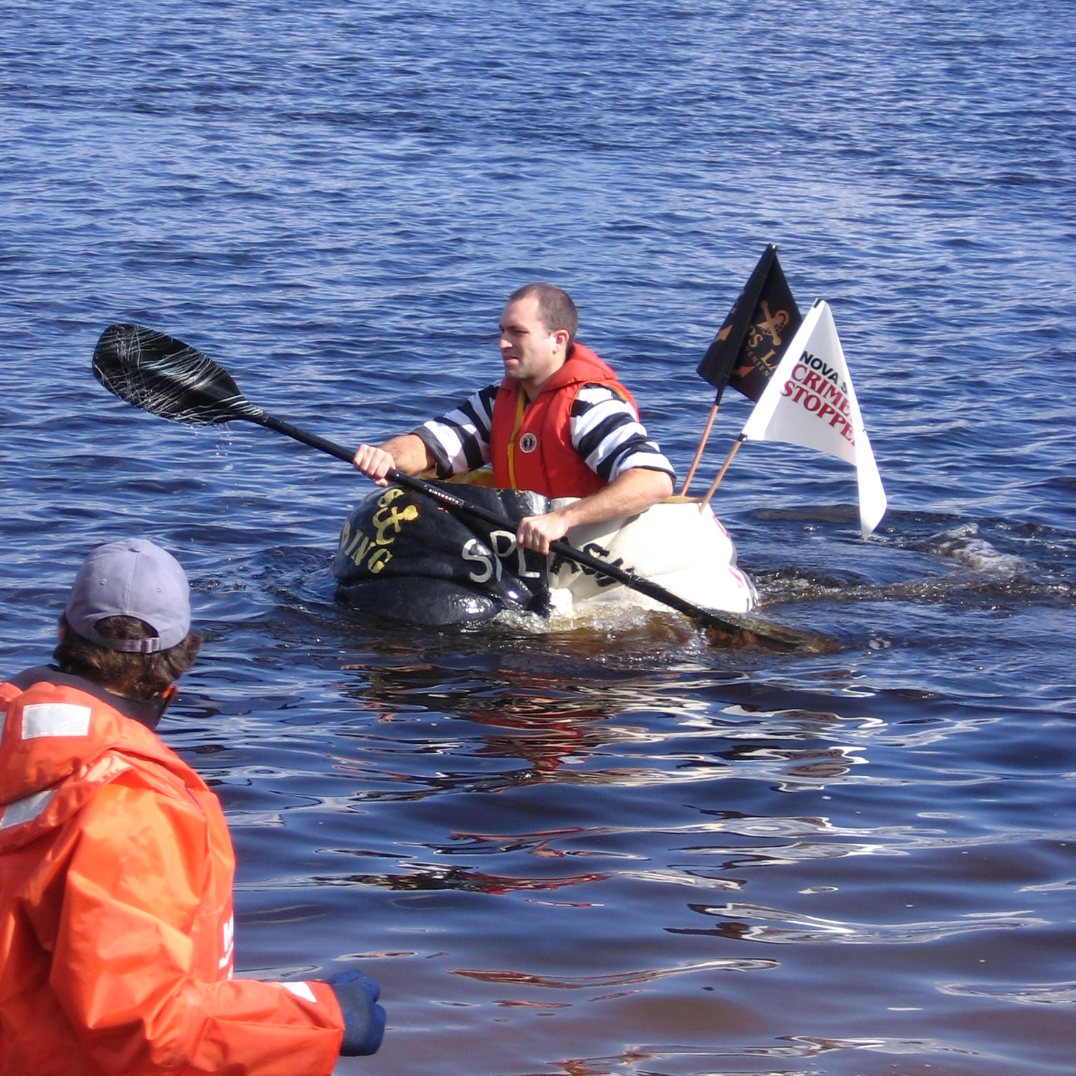 Decorated pumpkin and Eric Andre Comeau at the 2008 Windsor Pumpkin Regatta, Windsor, Nova Scotia. The picture was taken proior to the offical start of the half mile race.